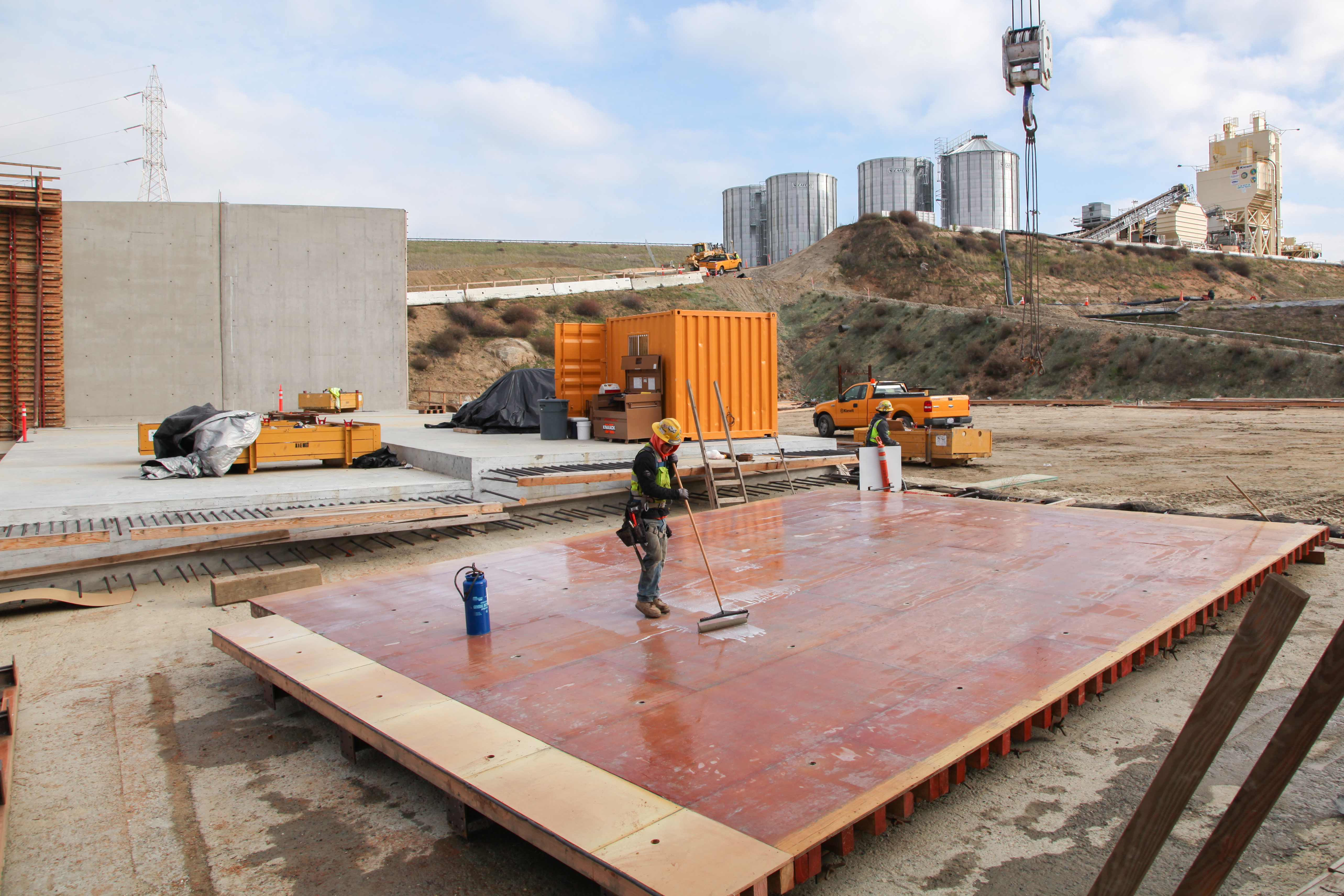 A contractor prepares a wooden form used in concrete placement, in the upper chute at the Folsom Dam auxiliary spillway project in Folsom, California, Dec. 29, 2014. The U.S. Army Corps of Engineers Sacramento District, together with the U.S. Bureau of Reclamation and state and local partners, is building the spillway to reduce flood risk throughout the Sacramento region. (U.S. Army photo by Todd Plain/Released)